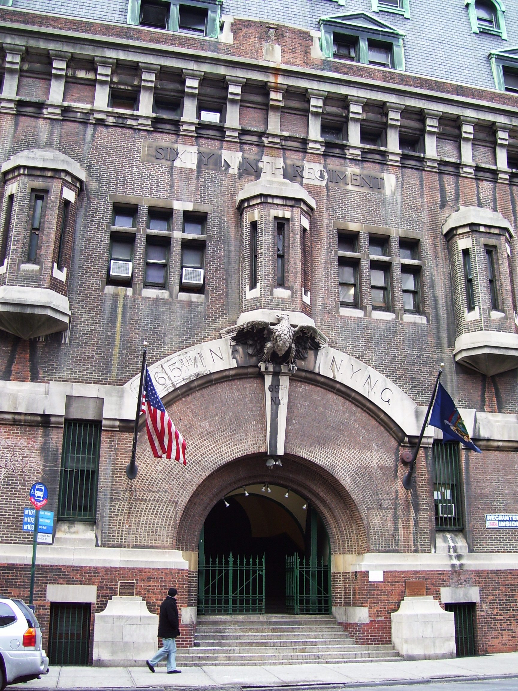 The entrance to the 69th Regiment Armory at 68 Lexington Avenue between 25th & 26th Street in Manhattan, New York City